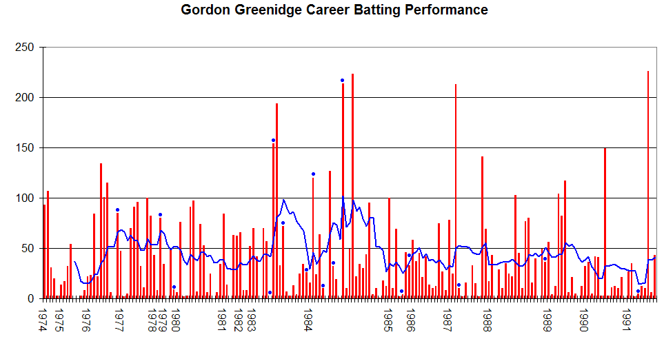 This graph details the Test Match performance of Gordon Greenidge. It was created by Raven4x4x. The red bars indicate the player's test match innings, while the blue line shows the average of the ten most recent innings at that point. Note that this average cannot be calculated for the first nine innings. The blue dots indicate innings in which Greenidge finished not-out. This graph was generated with Microsoft Excel 2002, using data from Cricinfo and .au.